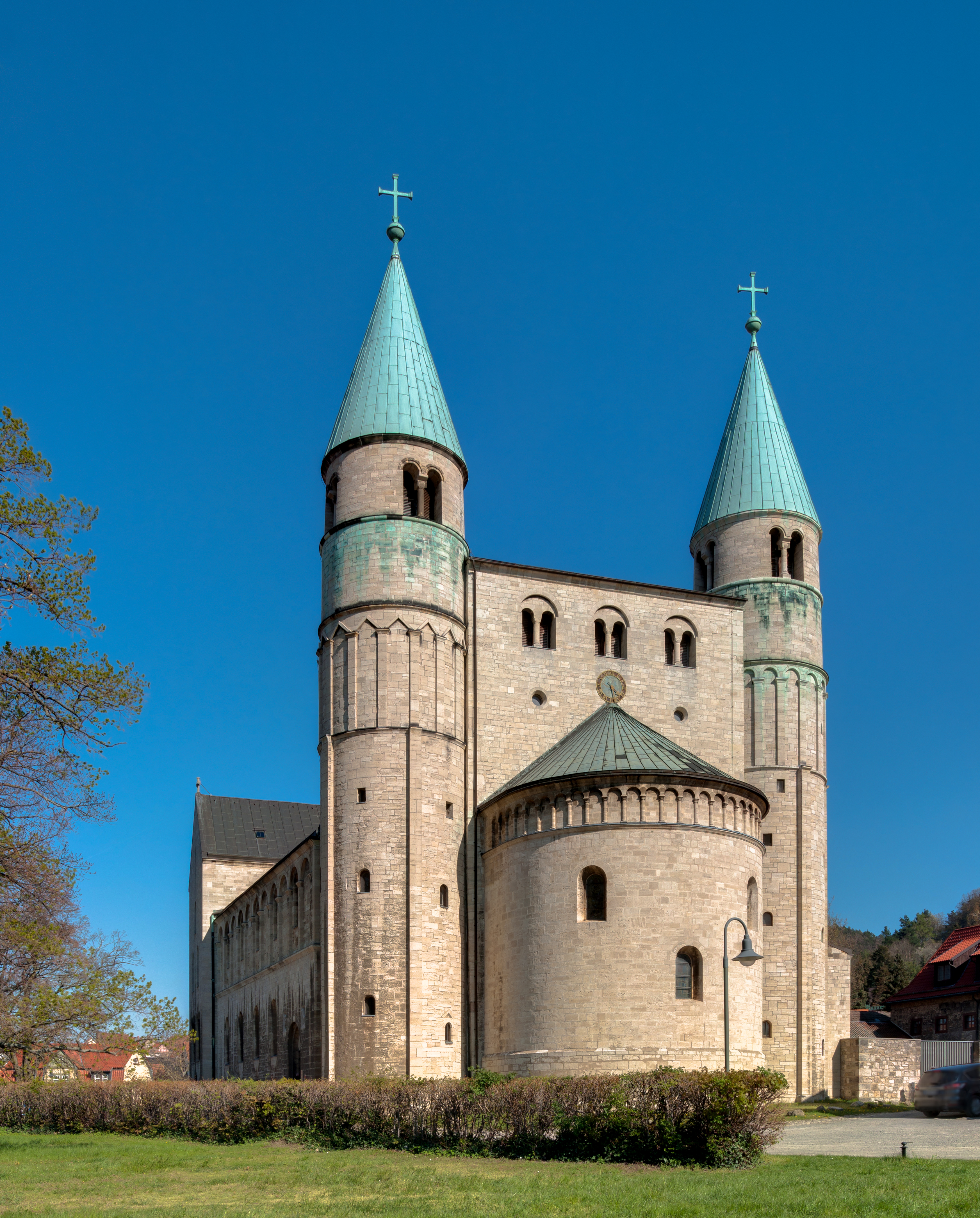 Westwork of Saint Cyriakus in Gernrode, Saxony-Anhalt/Germany